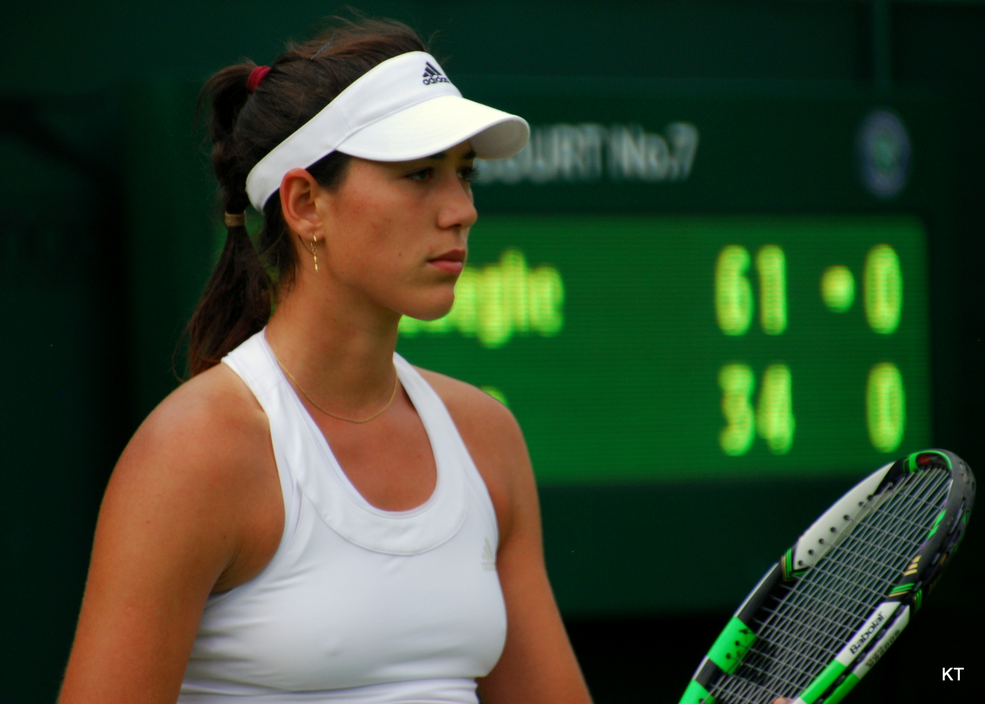 Day 1 of Wimbledon 2014.